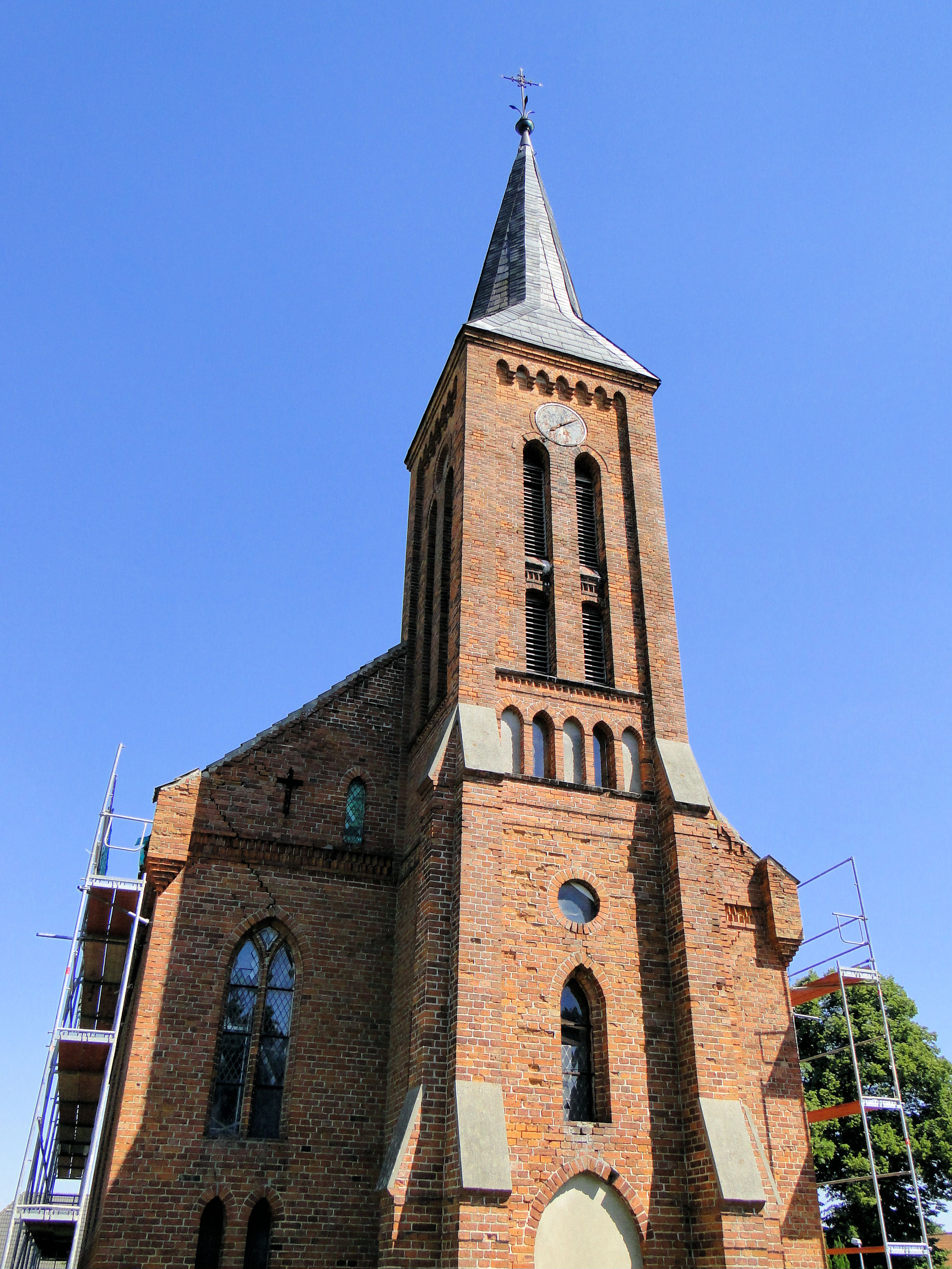 Church in Rosenow, district Demmin, Mecklenburg-Vorpommern, Germany